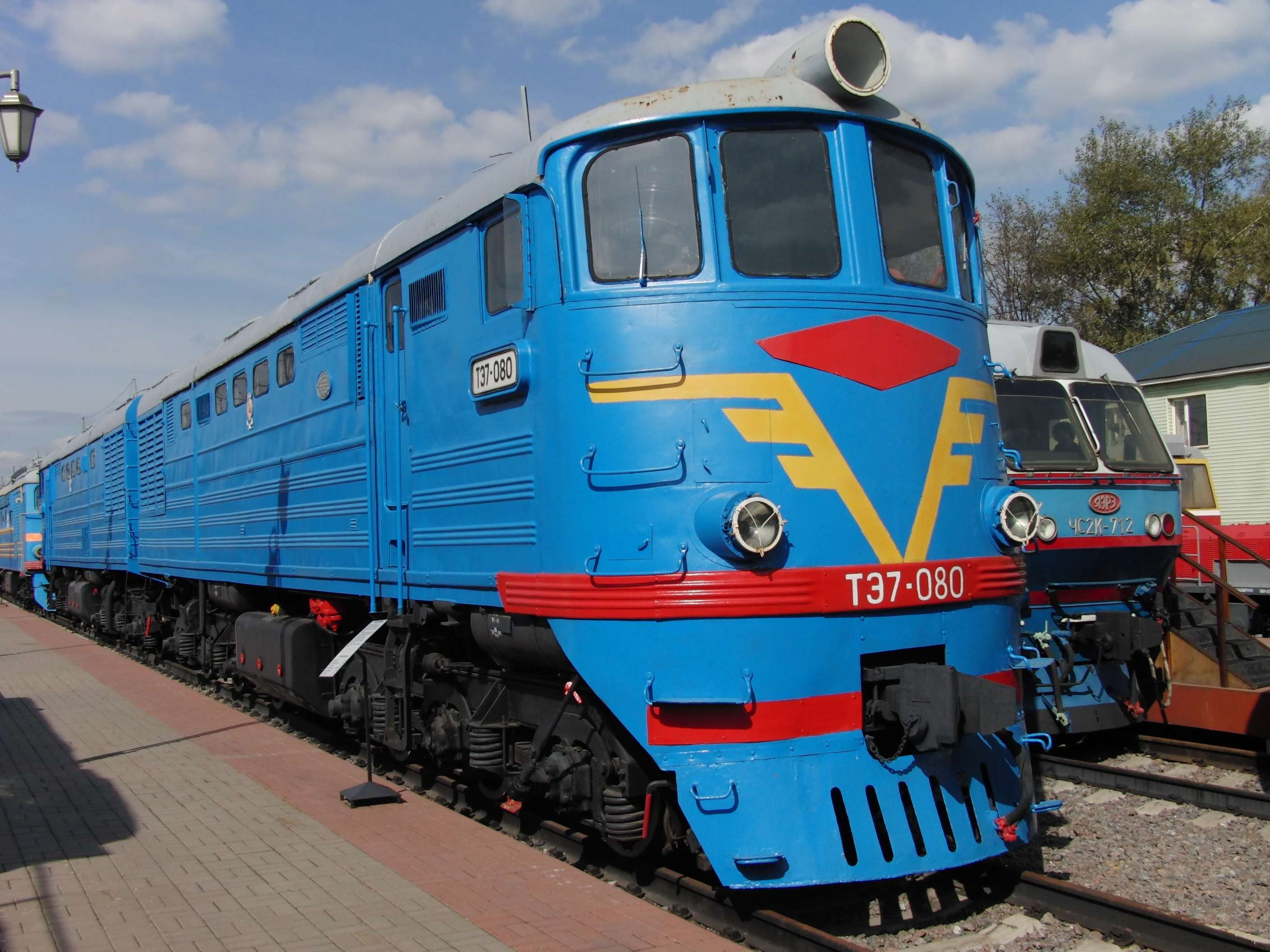 TE7-080 (ТЭ7) diesel locomotive at museum of Rizhkiy railway terminal in Moscow